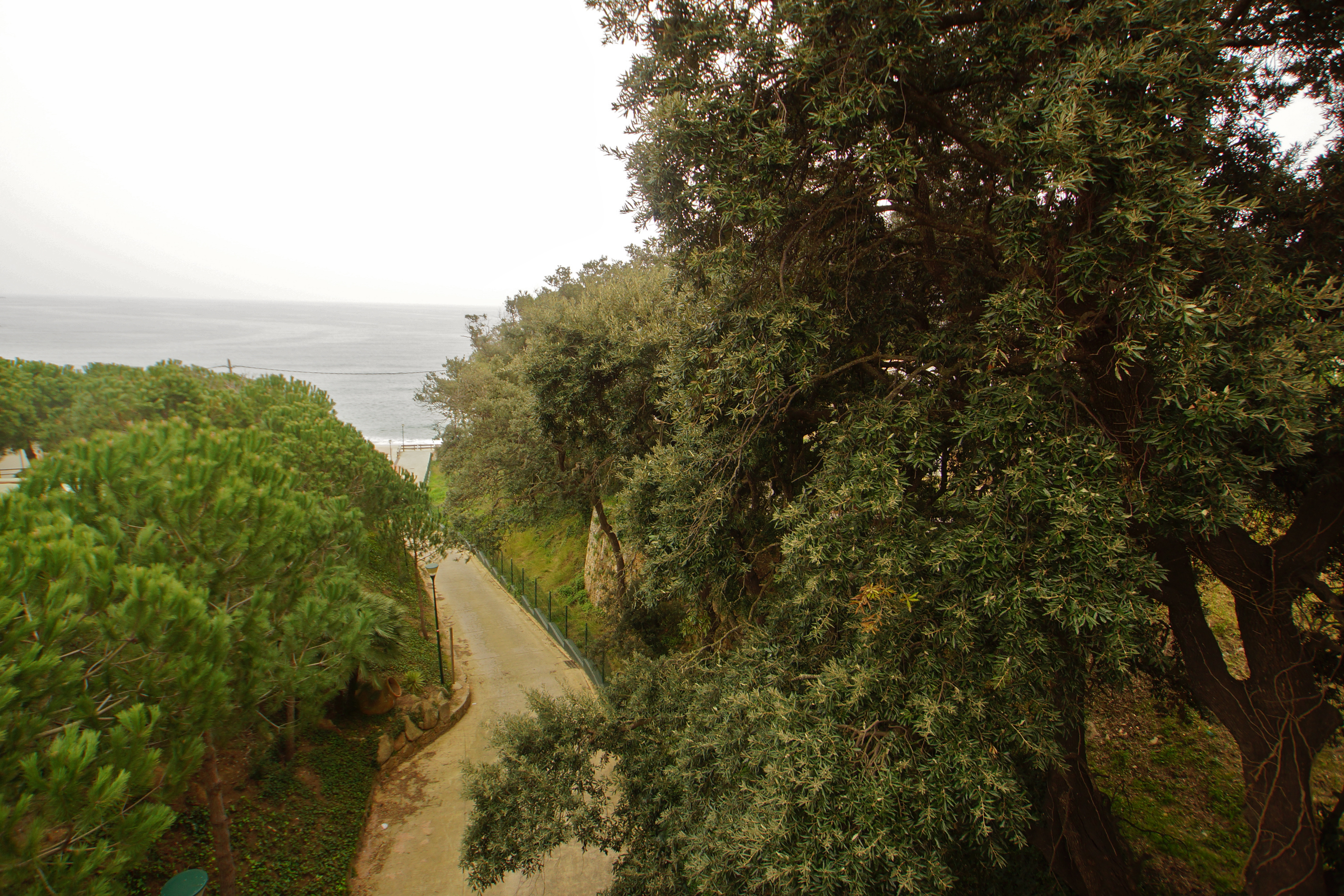 Calonge (Sant Antoni de Calonge), Catalonia: Rec de Treumal mouth in the Mediterranean Sea